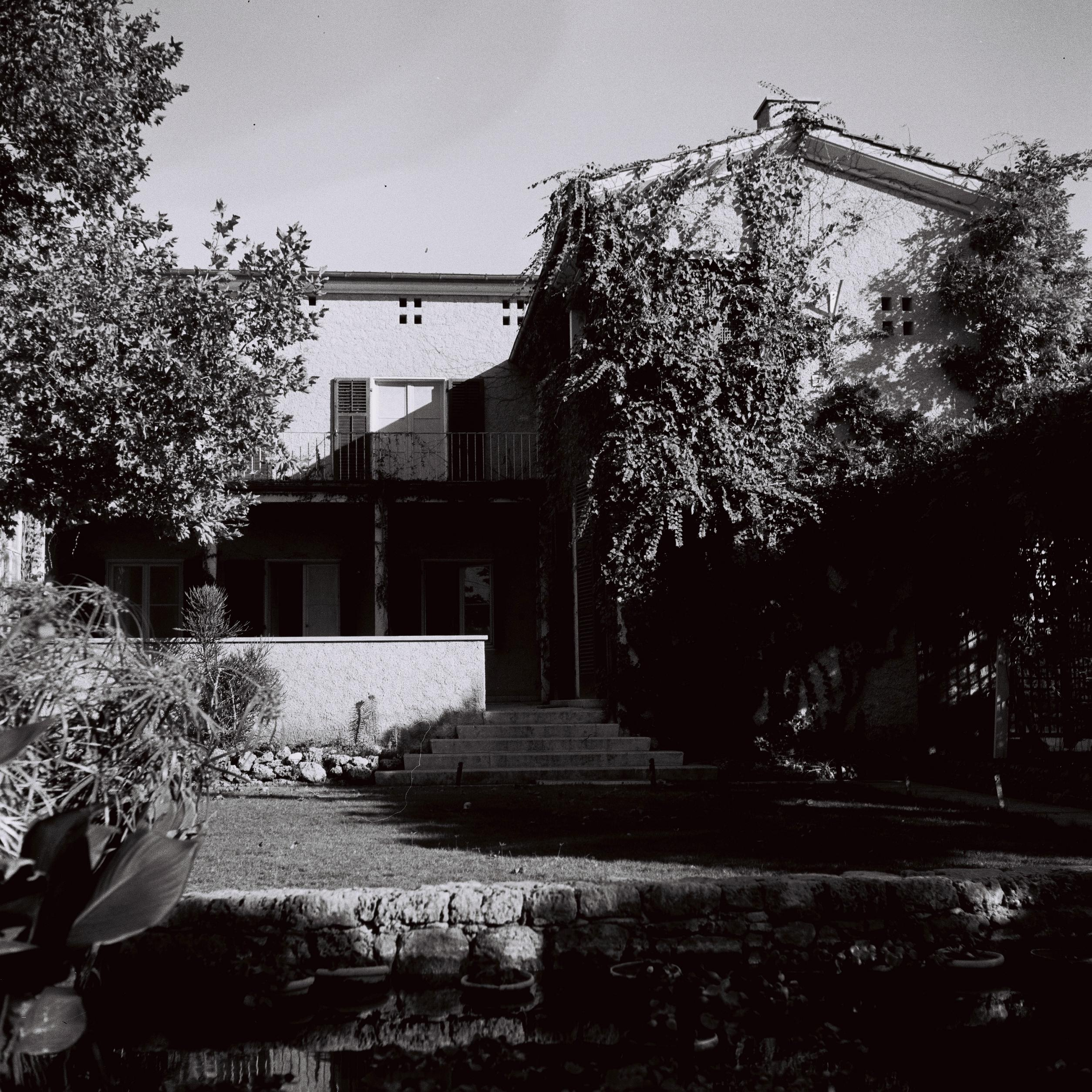 Foreign Office building in Tel Aviv